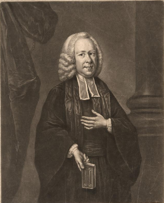 George Whitefield Artist James Moore, 18th Century Copy after M. Jenkin Sitter George Whitefield, 1714? - 1770 Date after 1751 Type Print Medium Mezzotint on paper Dimensions Image: 31 x 25.1cm (12 3/16 x 9 7/8") Sheet: 35.4 x 25.2cm (13 15/16 x 9 15/16") Credit Line National Portrait Gallery, Smithsonian Institution Object number NPG.69.77 Data Source National Portrait Gallery See more items in National Portrait Gallery Collection